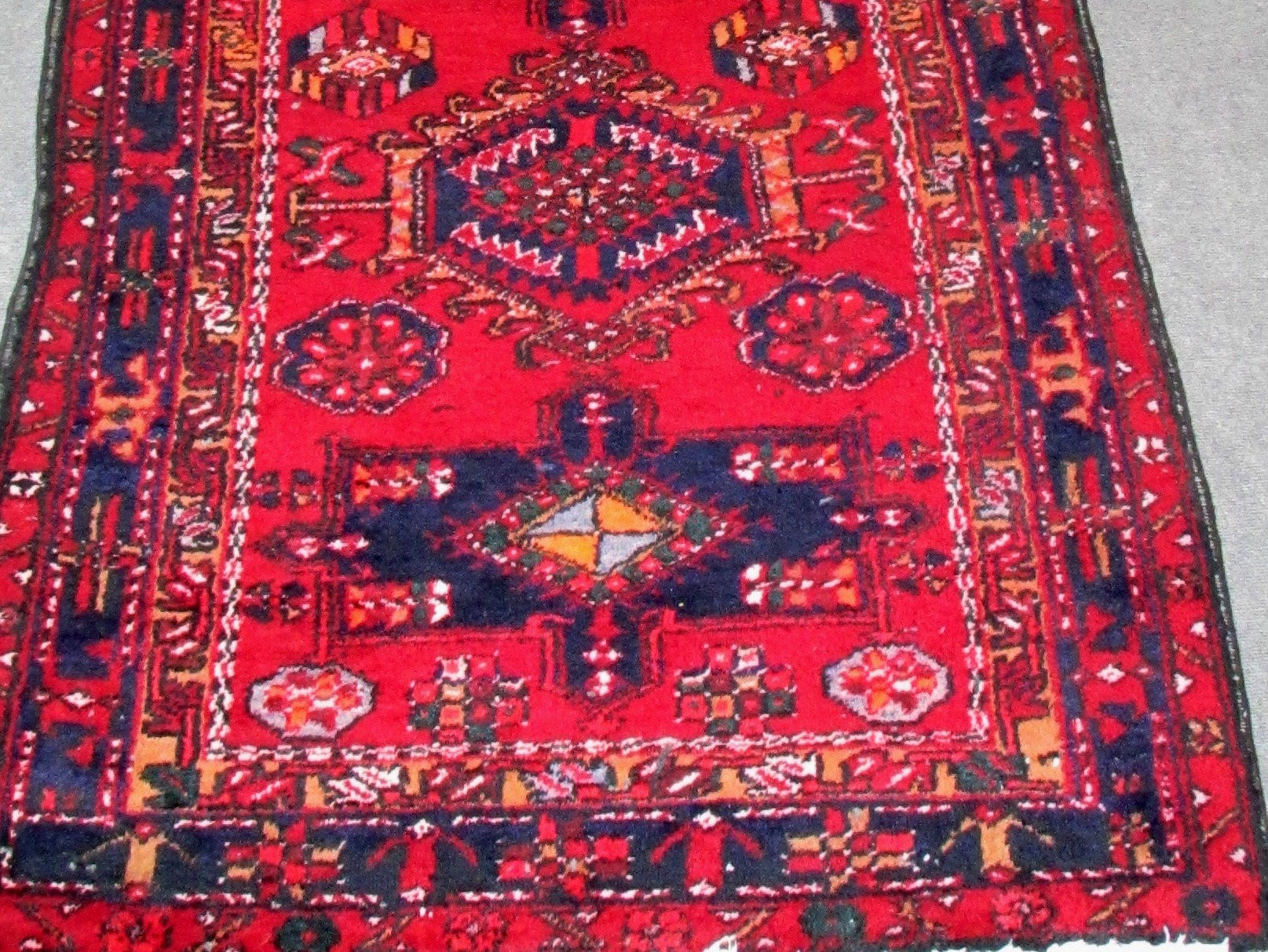 The photo displays Balan (Kaleybar) rug.